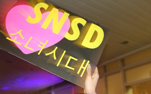 SNSD NO.1